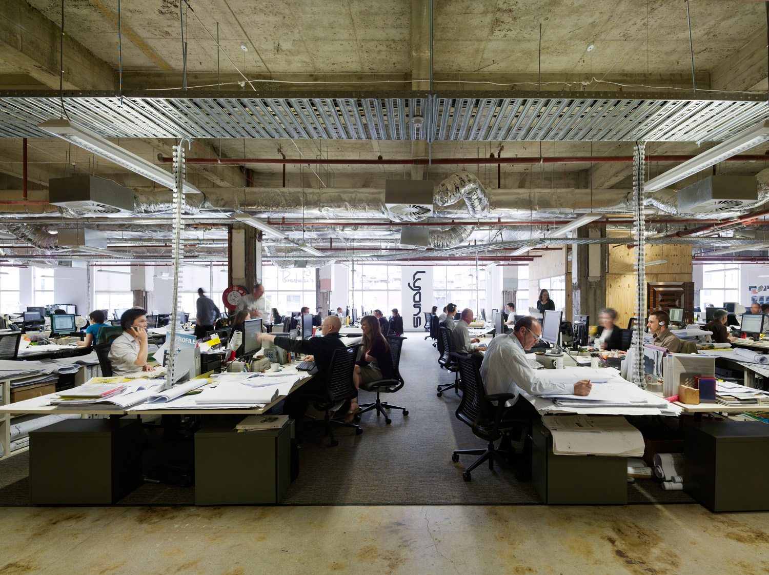 Foyer of the Lyons Studio